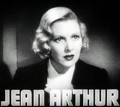 Cropped screenshot of Jean Arthur from the trailer for the film Public Hero No. 1 (1935).